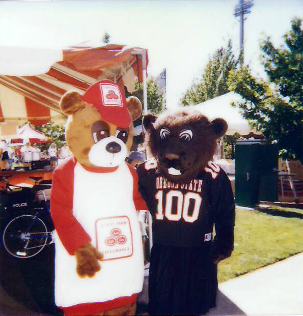 Pregame outside Reser Stadium (Vince Ewert as Benny Beaver)